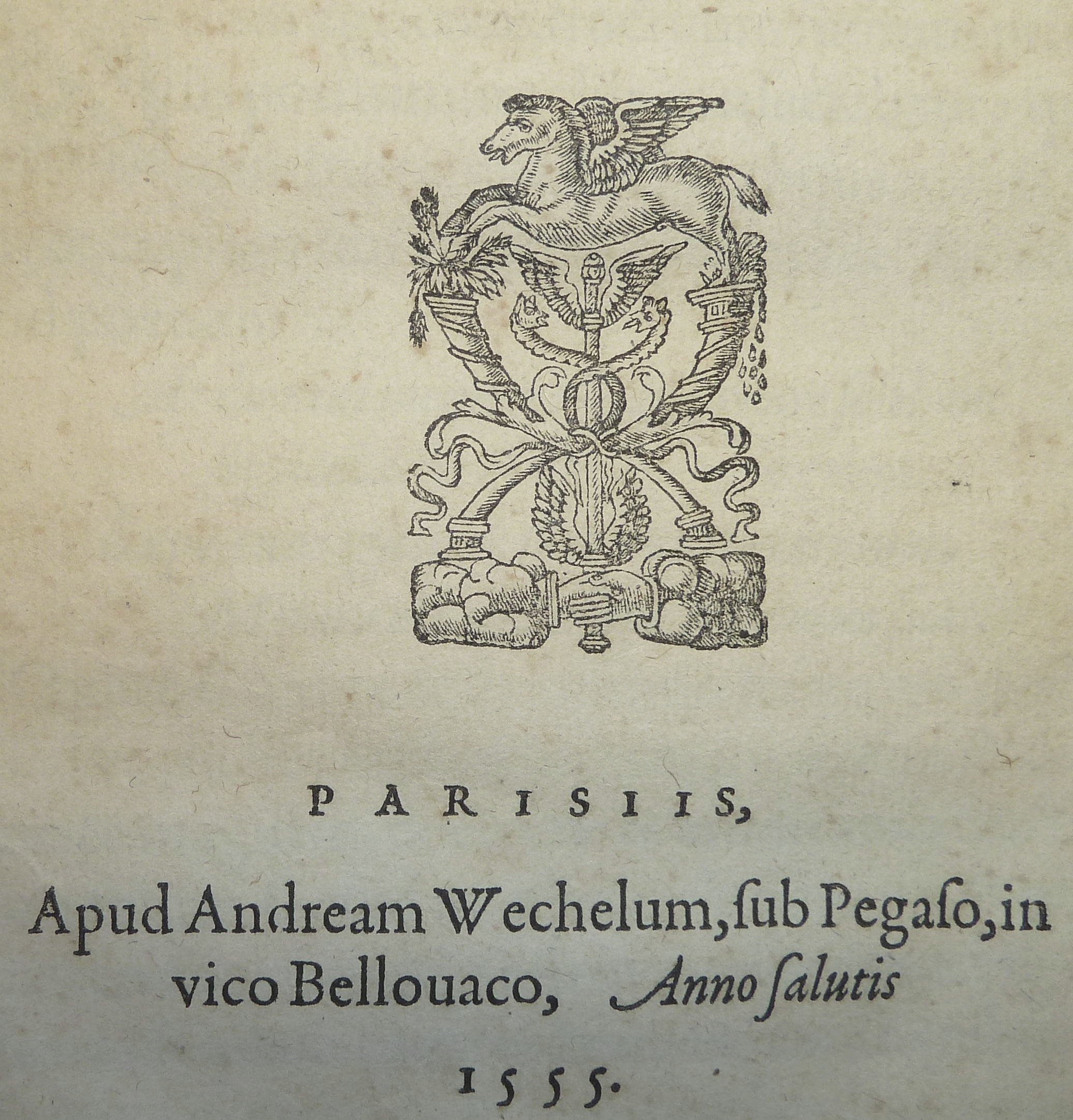 Woodcut device of Paris (and, later, Frankfurt) printer Andreas Wechel depicting Pegasus being supported by cornucopias held by clasped hands emerging from clouds, with a cadeceus in center of device. Established heading: Wechel, Andreas, ‡d d. 1581 Penn Libraries call number: LatC P4315 555s